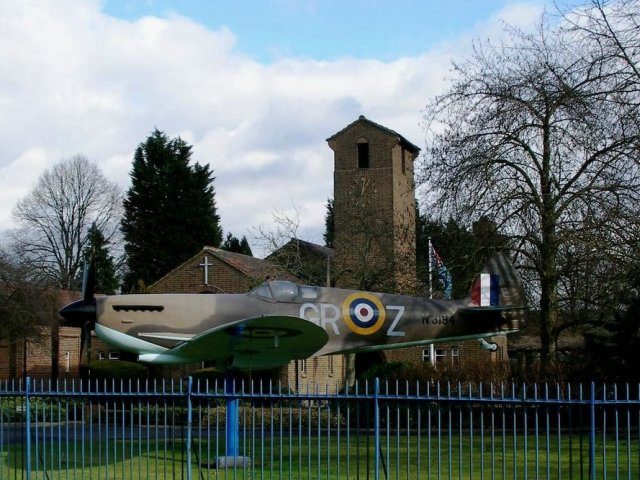 RAF church and mock-up fighter plane at Biggin Hill